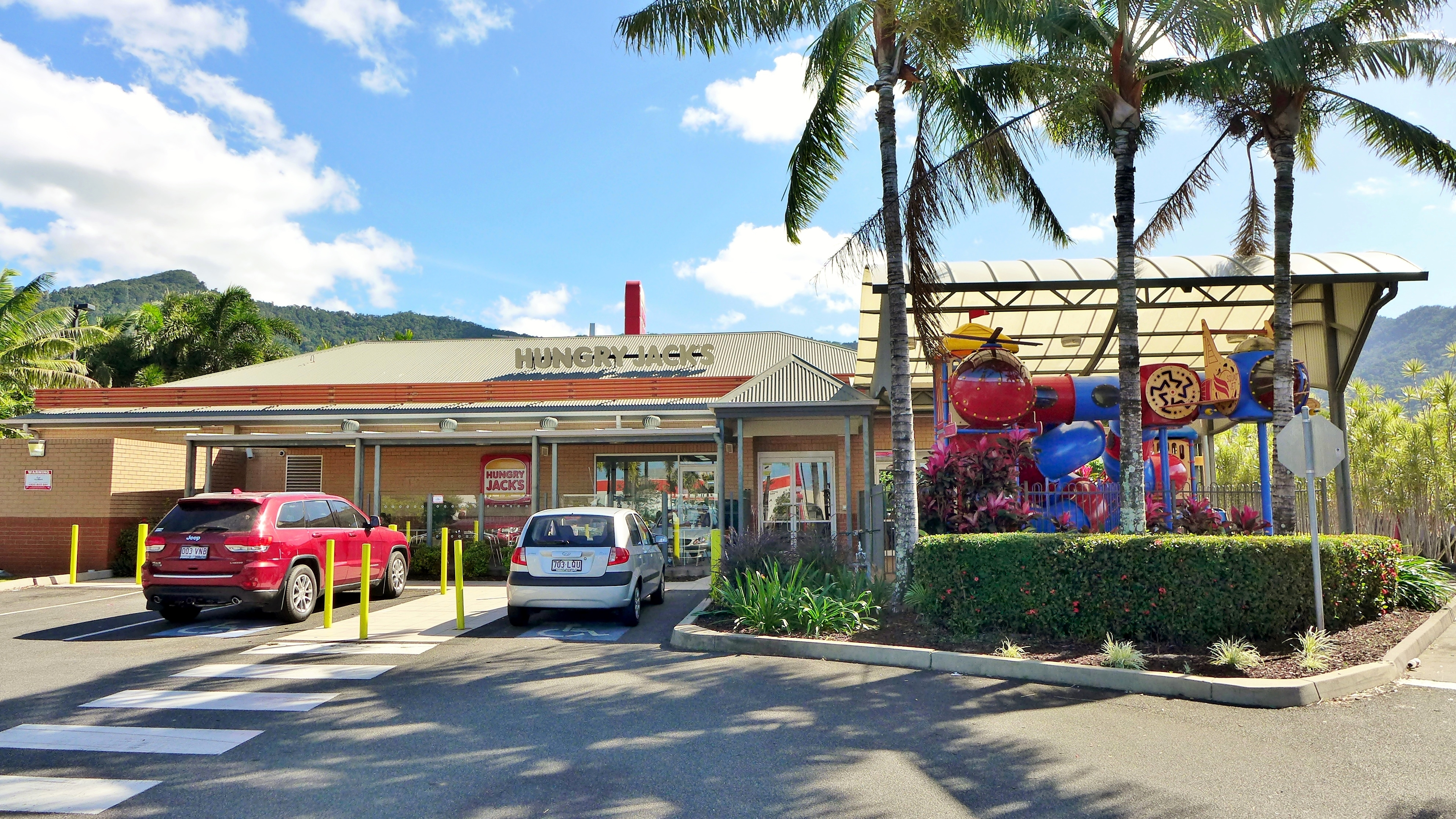 The Hungry Jack's restaurant in Smithfield, a northern suburb of Cairns, Far North Queensland, Australia